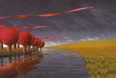 a painting by Patricia van Lubeck